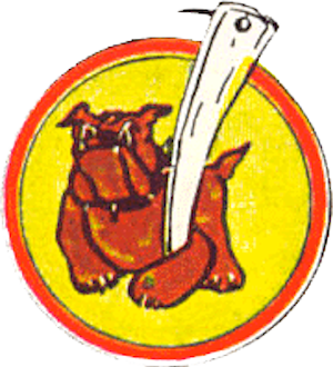 Emblem of the 82d Bombardment Squadron (World War II)